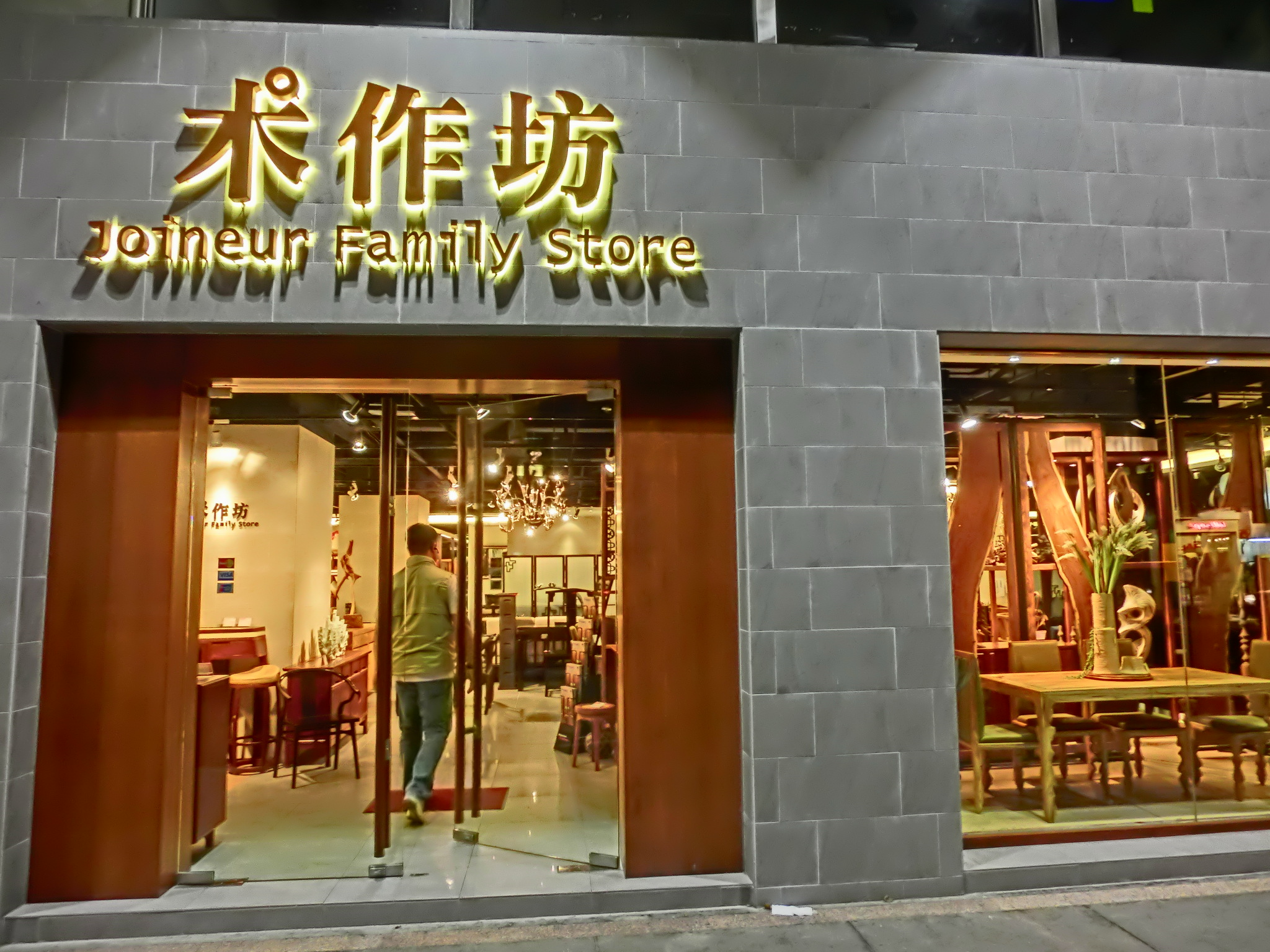 灣仔 皇后大道東, Queen's Road East, Wan Chai, Hong Kong